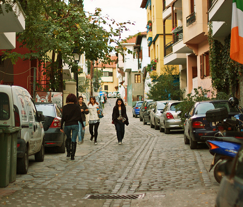 The Ano Poli (Upper Town) district of Thessaloniki, with its typically Turkish architecture.